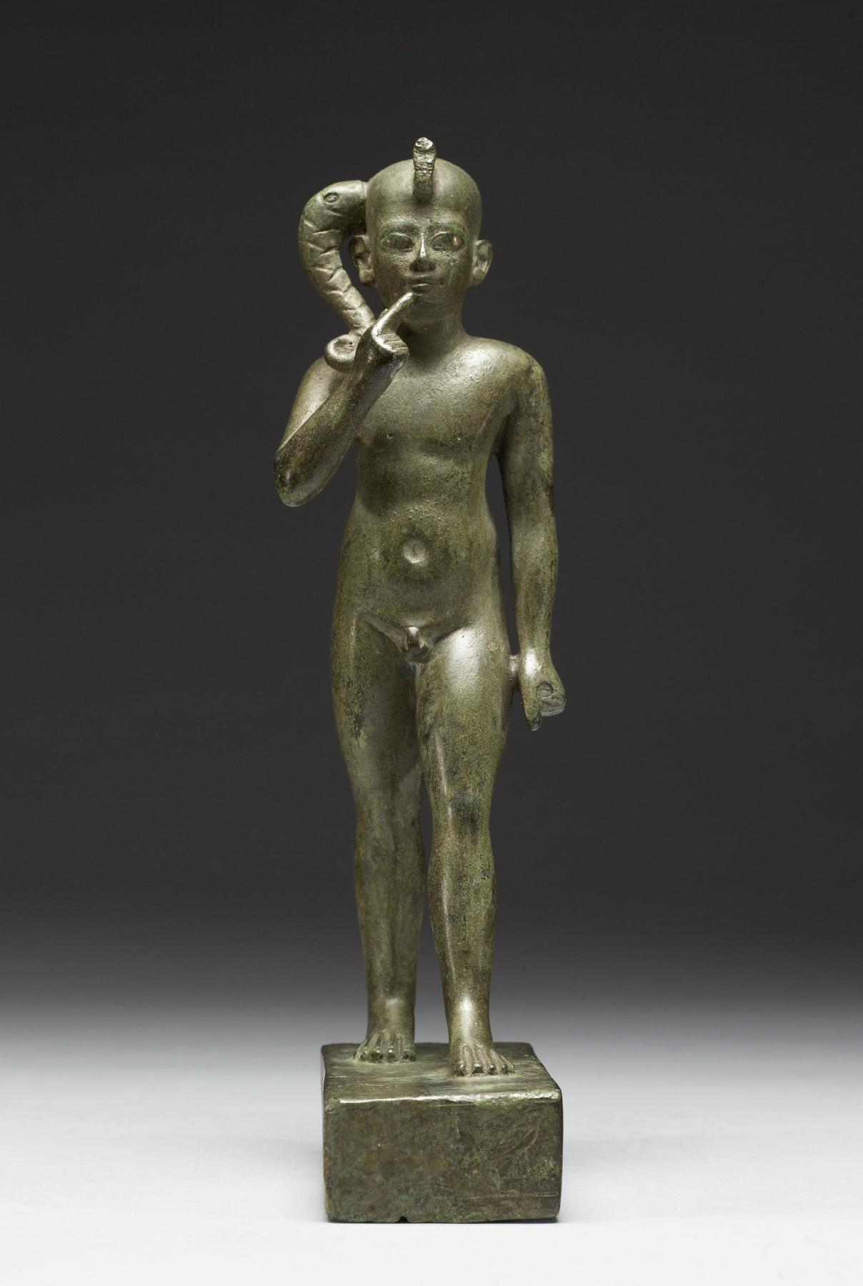 Harpocrates or "Horus the Child" was the son of Isis and Osiris. He represents legal kingship as mythical successor of his father Osiris, who, in death, became Lord of the Netherworld. He was especially popular in the Late and Greco-Roman periods. Representations such as this show him as a nude boy with his finger to his mouth, and a sidelock of hair, the symbols of childhood. Here he also has a uraeus (a cobra serpent) above his forehead, symbolizing his entitlement to kingship.